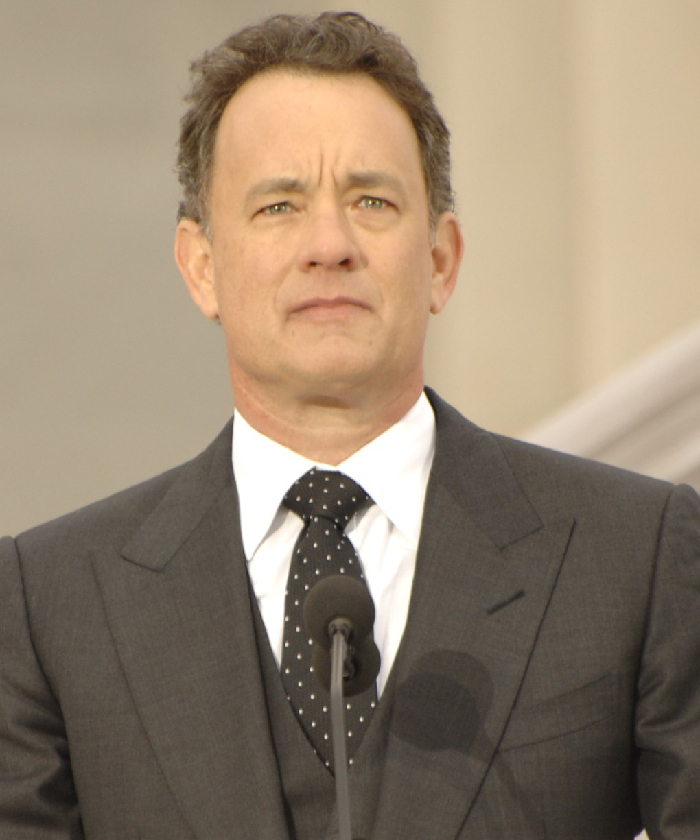 Tom Hanks recites the orchestral work "Lincoln Portrait," written by Aaron Copland, at the Lincoln Memorial on the National Mall in Washington, D.C., January 18, 2009, during the inaugural opening ceremonies. More than 5,000 men and women in uniform are providing military ceremonial support to the presidential inauguration for Barack Obama, a tradition dating back to George Washington's 1789 inauguration.